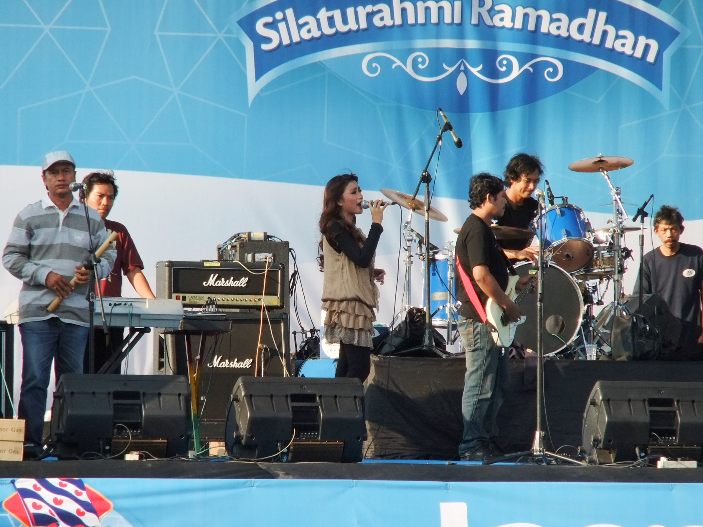 Maya KDI at Silaturahmi Ramadhan, Plaza Surabaya